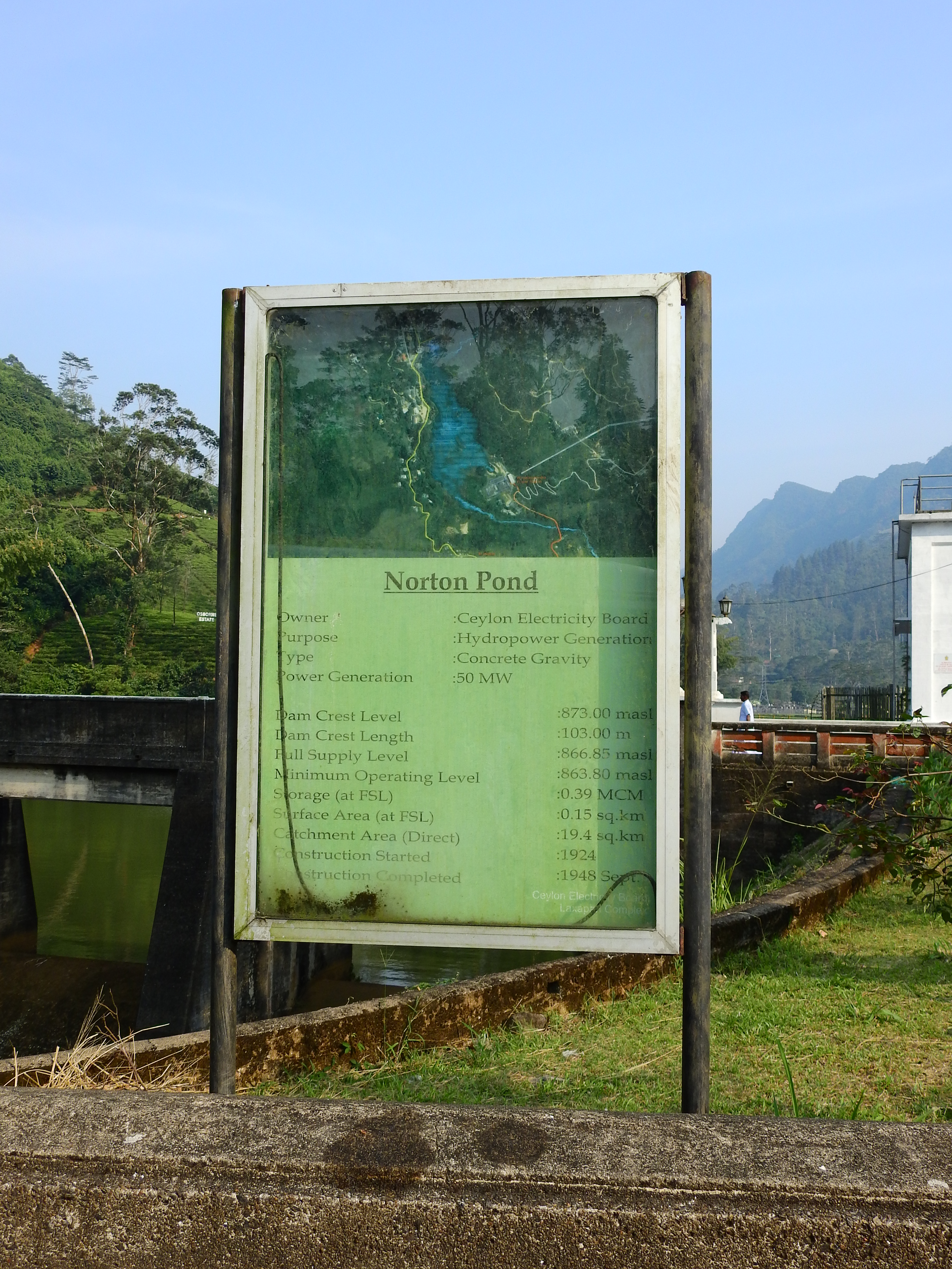 This photo was taken as part of a photo project by Wikimedia Community User Group Sri Lanka, covering current/future hydroelectric dams (and its surroundings) in the Central and Sabaragamuwa provinces of Sri Lanka. User:Rehman handled the photography, while User:Azeez and User:PasinduBR handled the logistics/planning of routes. Description of photo: Norton Dam. Further information on the subject(s) of the photograph may be found in the category/ies of this file.